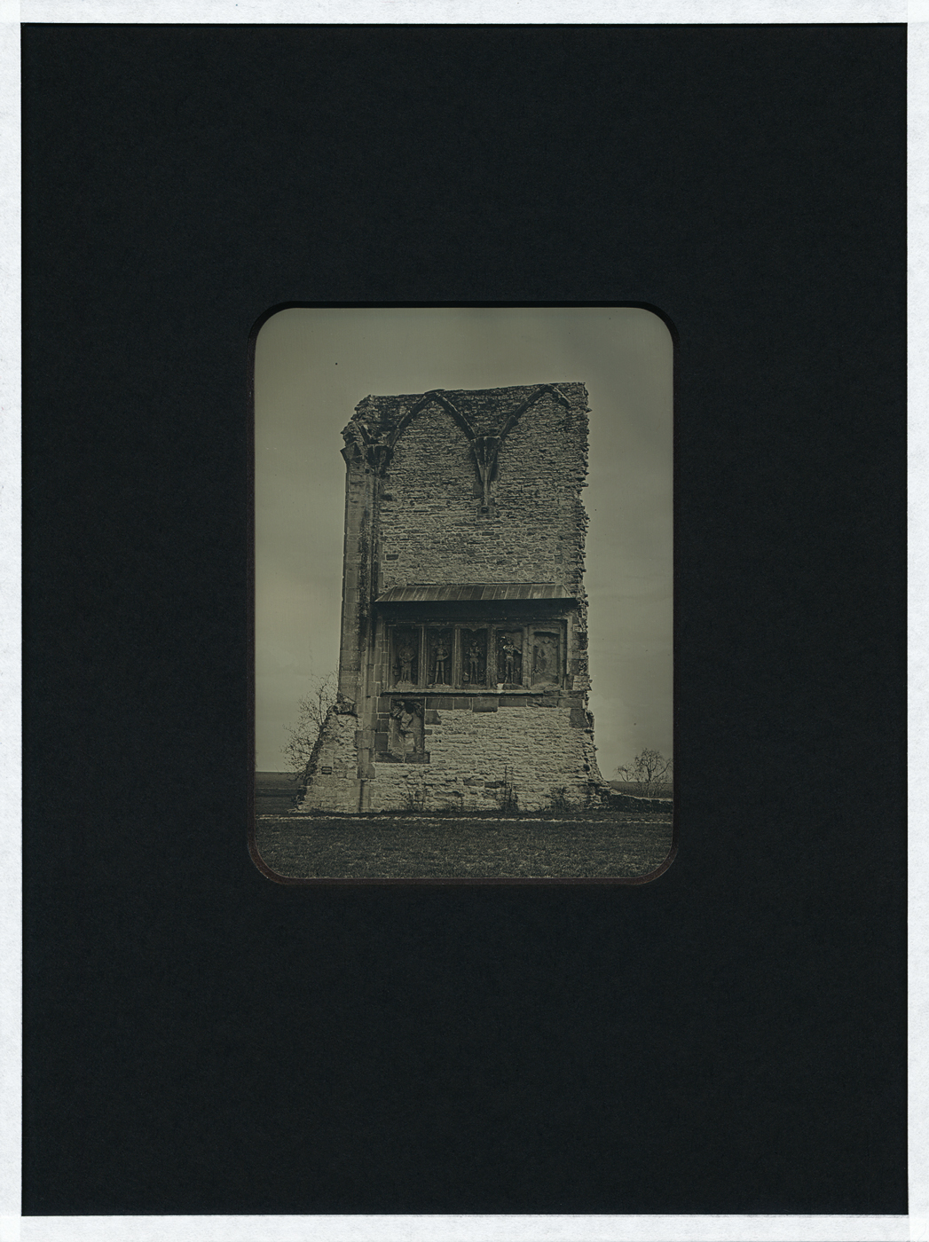 Daguerreotype 4x5", Location: Monastery Anhausen (Satteldorf, Germany)